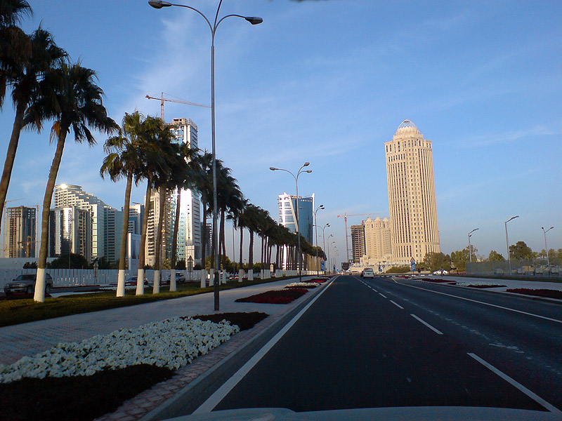 Doha Corniche, taken in February 2007.